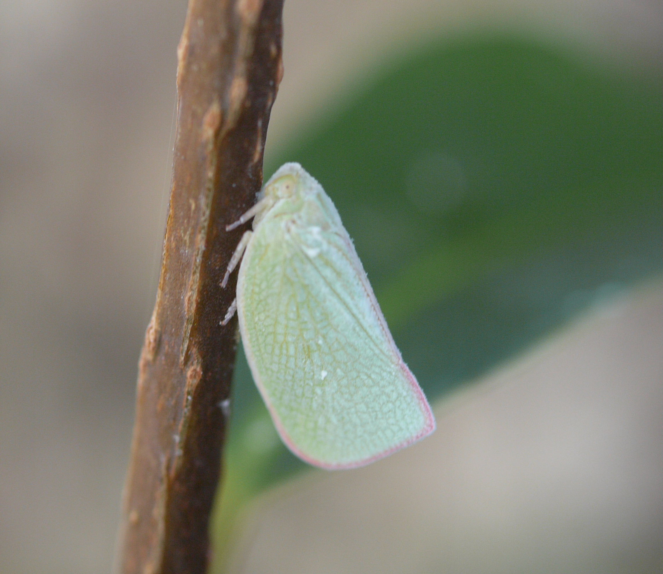 Geisha distinctissima(Flatidae) アオバハゴロモ